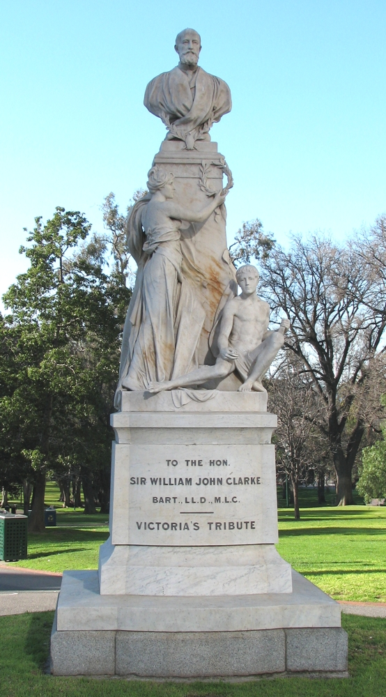 Statue of Sir William John Clarke, Treasury Gardens, Melbourne by Bertram Mackennal.